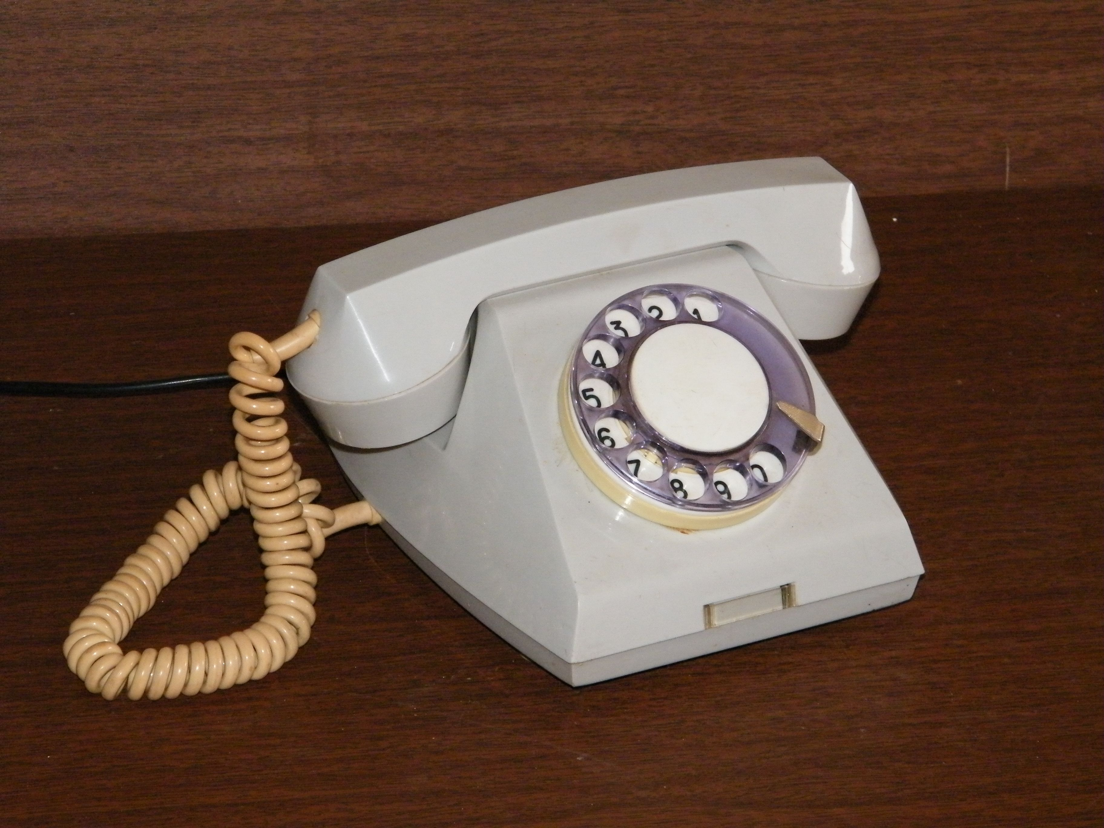 Rotary dial telephones